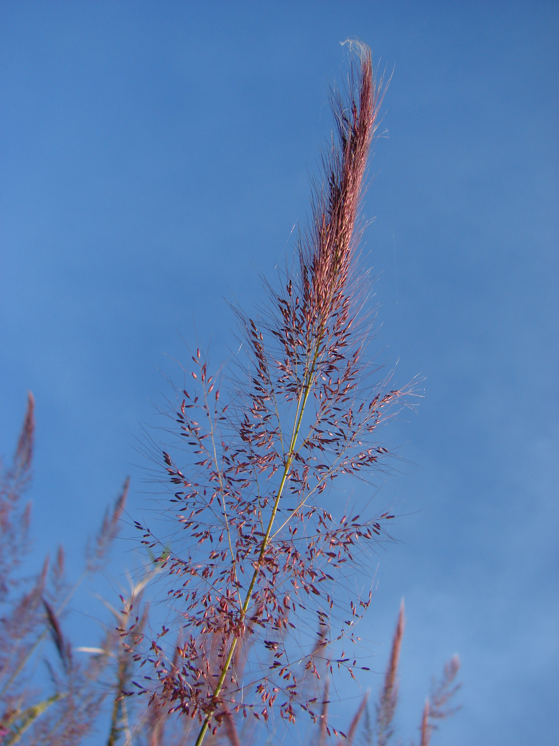 Melinis minutiflora (inflorescences). Location: Maui, West Kuiaha Rd Haiku